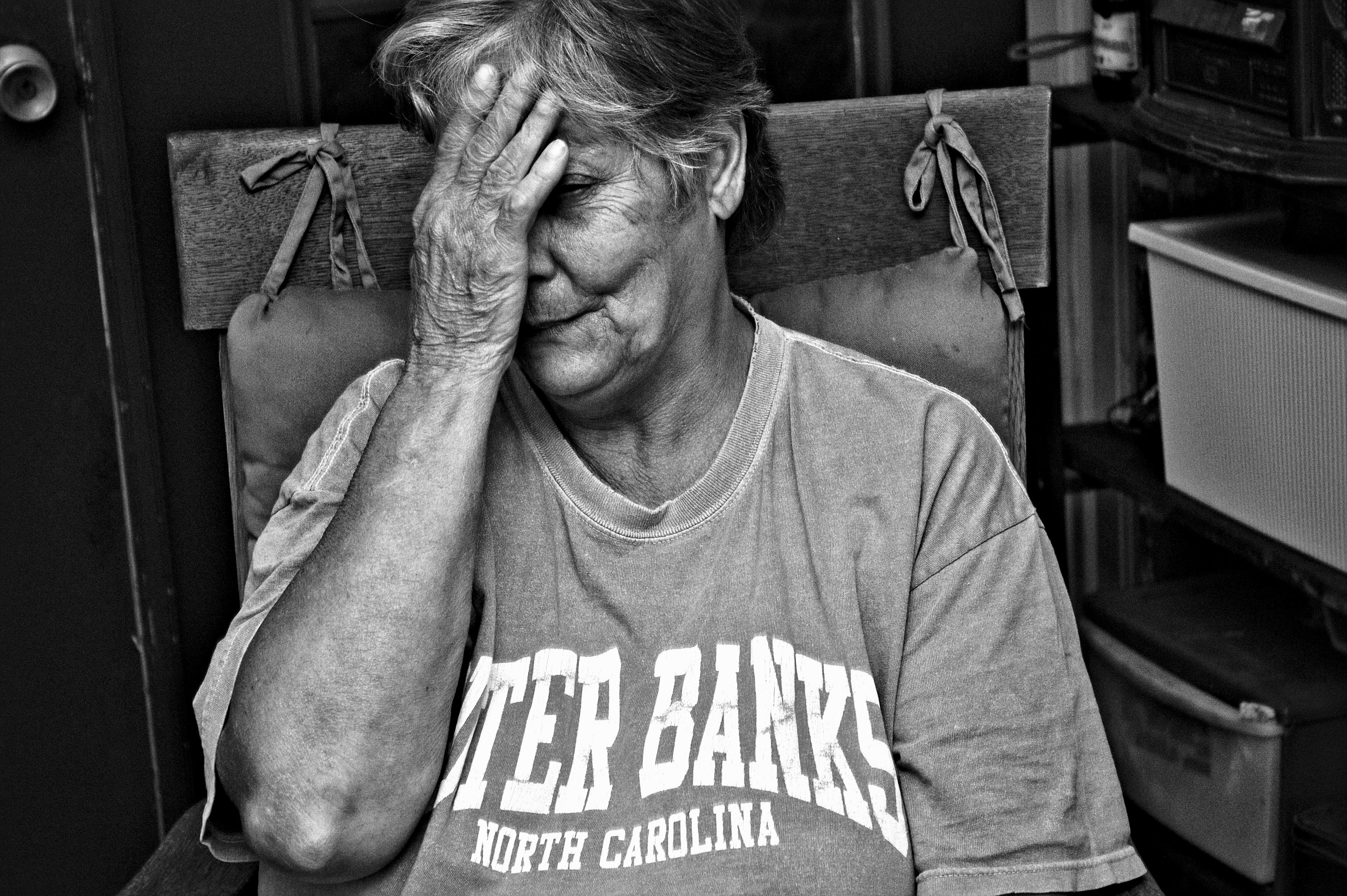 Face palm.